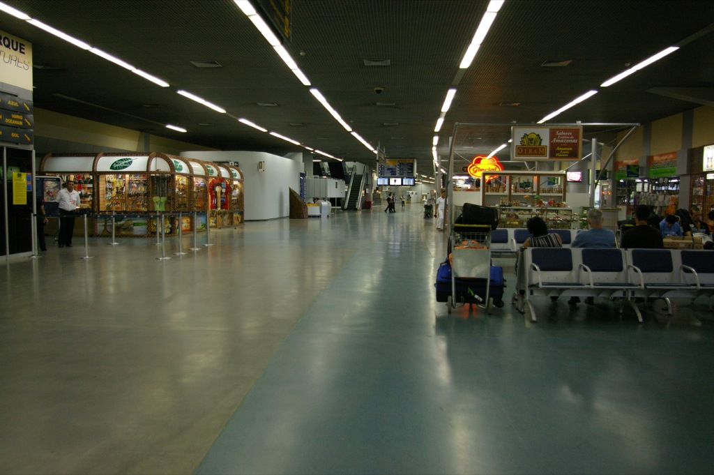 Manaus Airport.